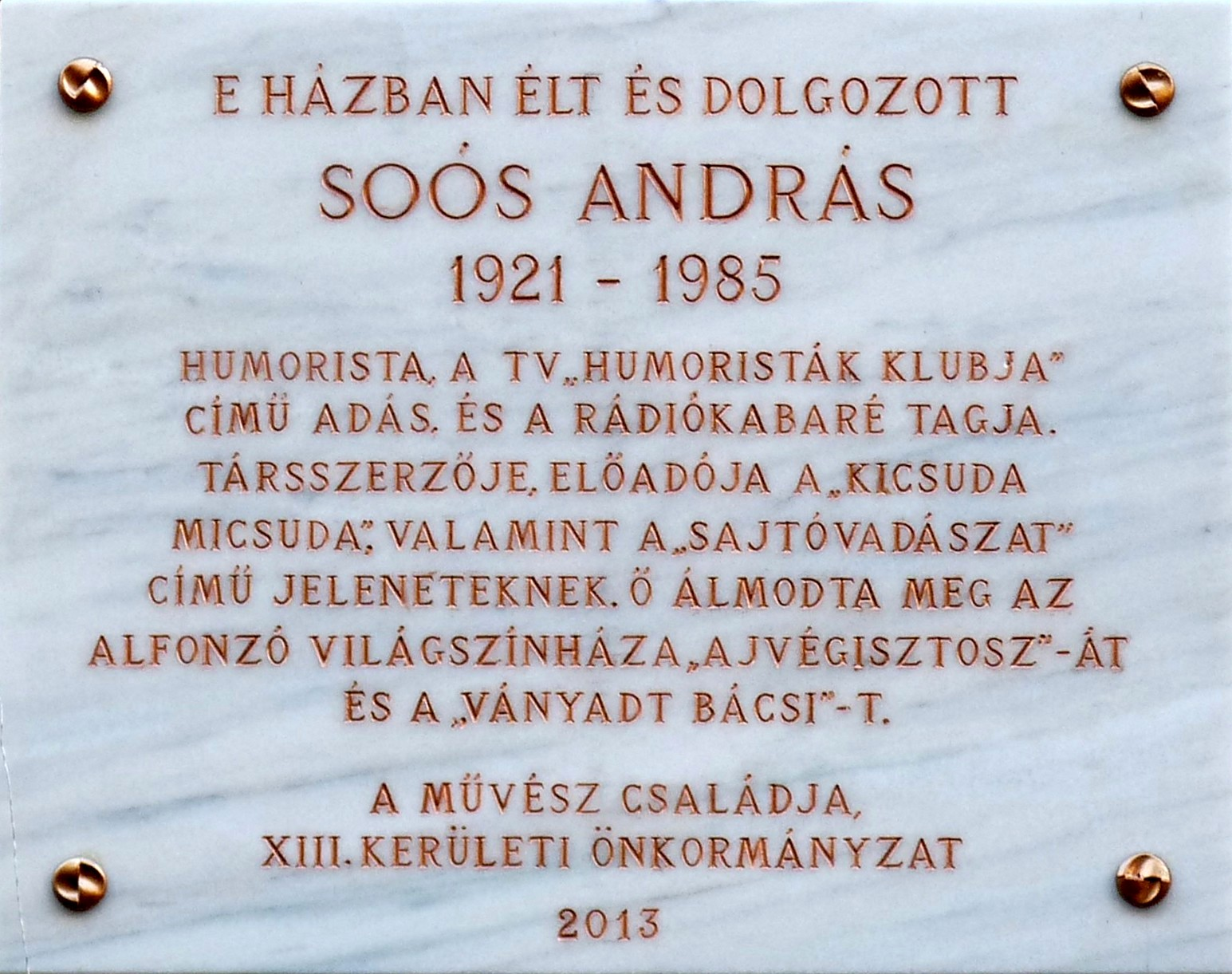 Commemorative plaque to Mr. András Soós (1921-1985) Hungarian humorist, editor, dramaturgist and broadcaster. It has been affixed on the wall of his former home on November 29, 2013. (Budapest, District XIII, Gyöngyház Street Nr 4).